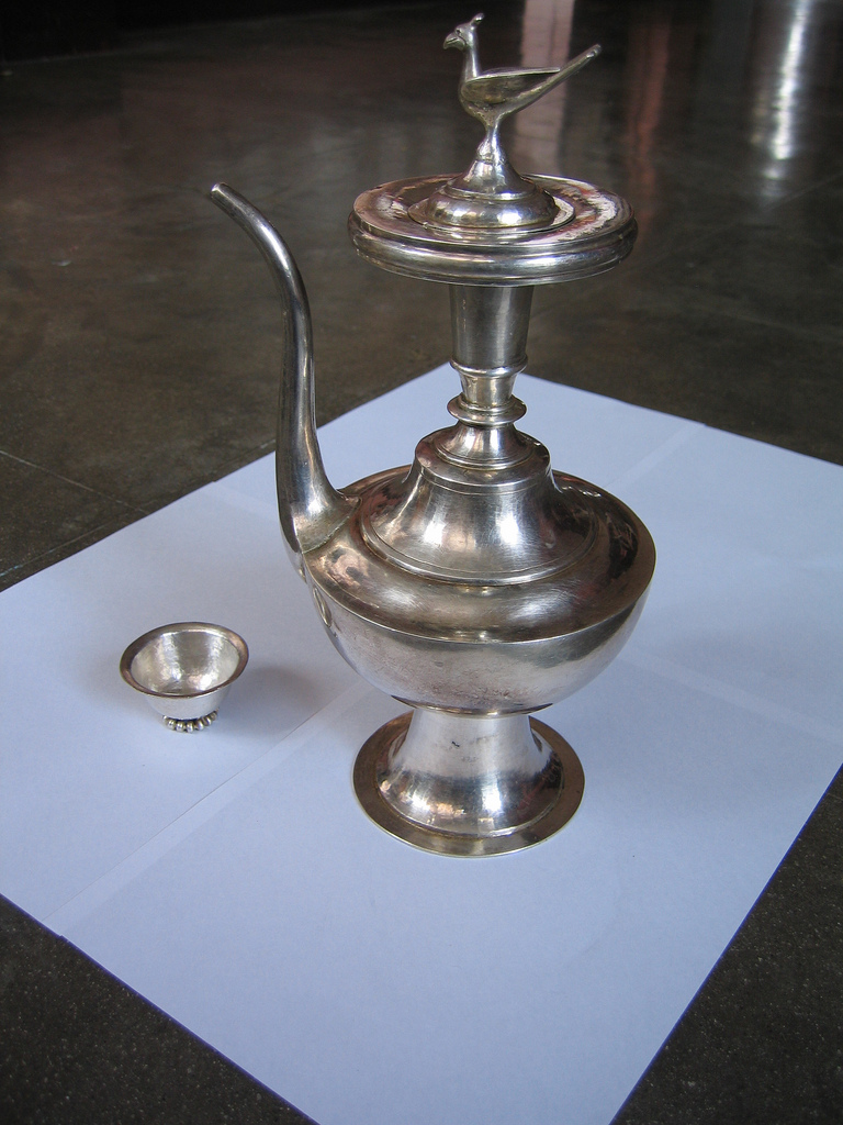 Traditional Newari Object made up of silver to put local whisky (in newari known as ela)